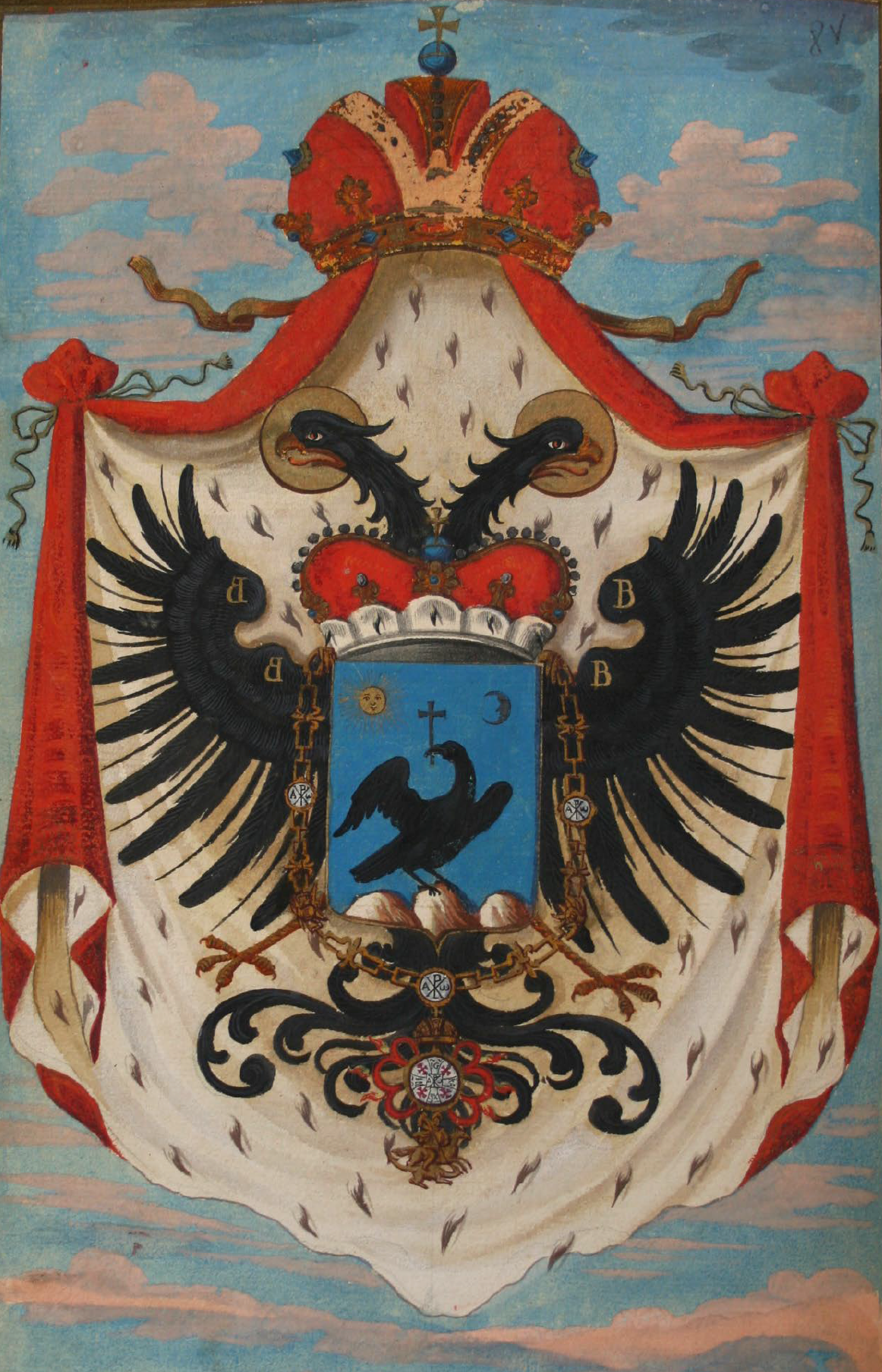 Coat of arms of the Great Ban Gheorghe sin Șerban Catacuzino as Grand Master of the Sacred Military Constantinian Order of Saint George. From the 18th-century collection known as Cartea de Aur a Ordinului Constantinian ("Golden Book of the Constantinian Order"); original preserved at Iași National Archives.